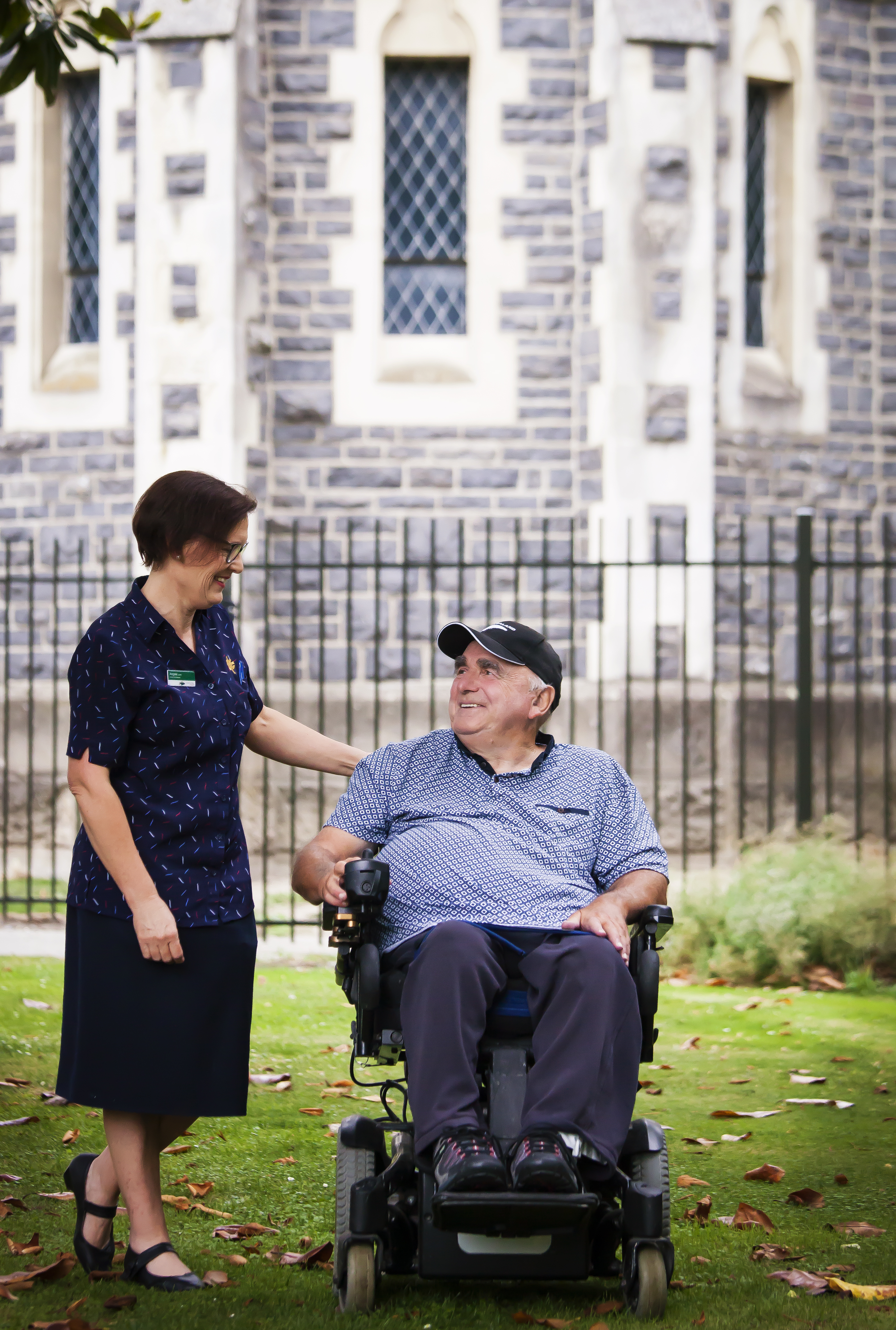 Resident Des and caregiver Angela at St John of God Halswell